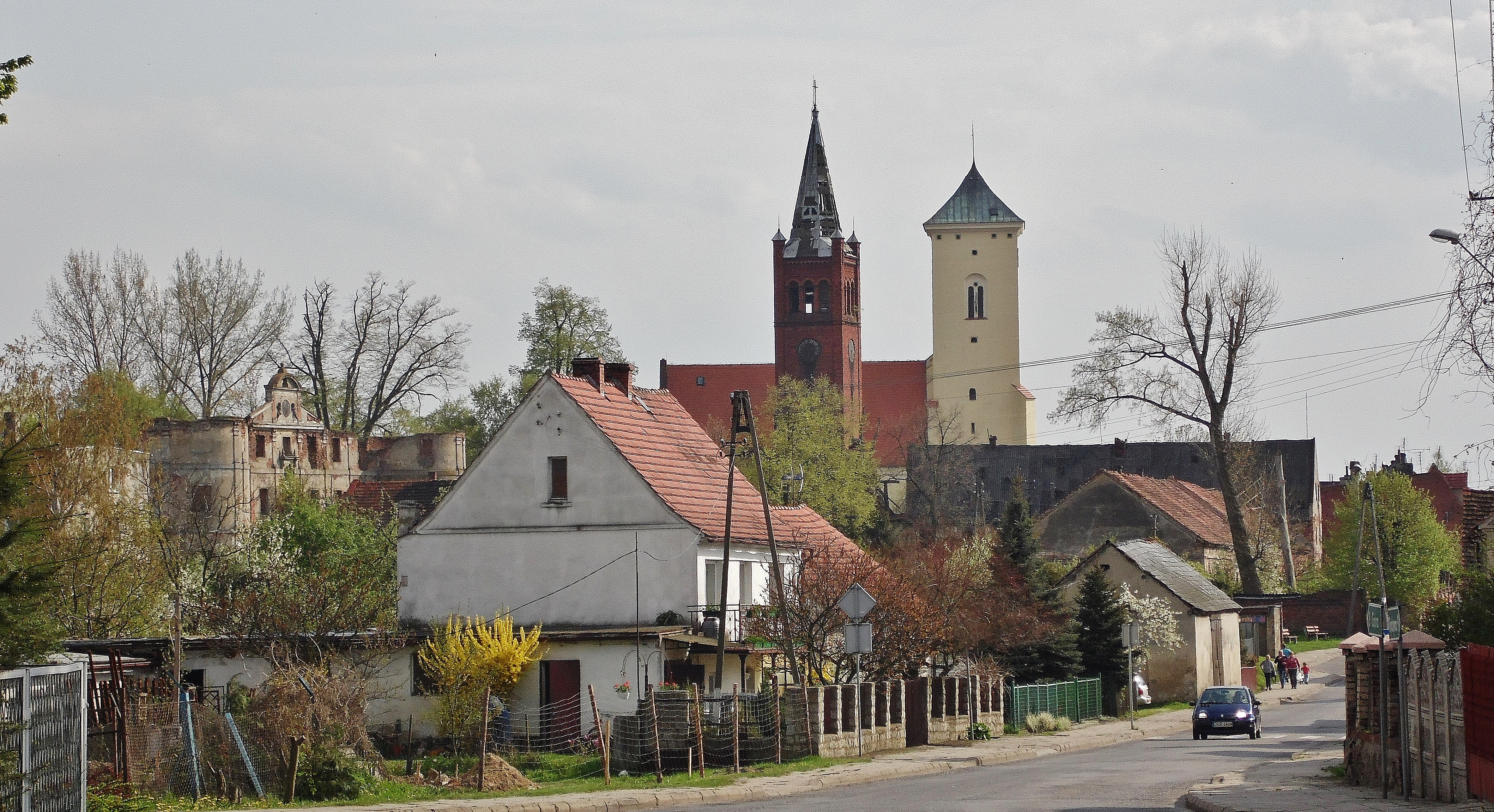 Czernin, ul. Rydzyńska / górowski district / province. dolnoslaskie / Poland